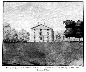 Watercolour of the mansion house at Youngsbury, Hertfordshire, England.